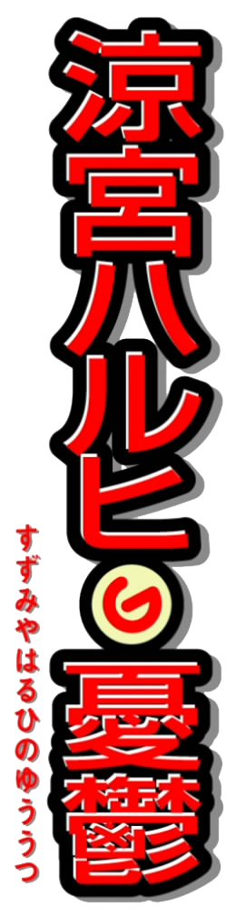 Logotype of The Melancholy of Haruhi Suzumiya